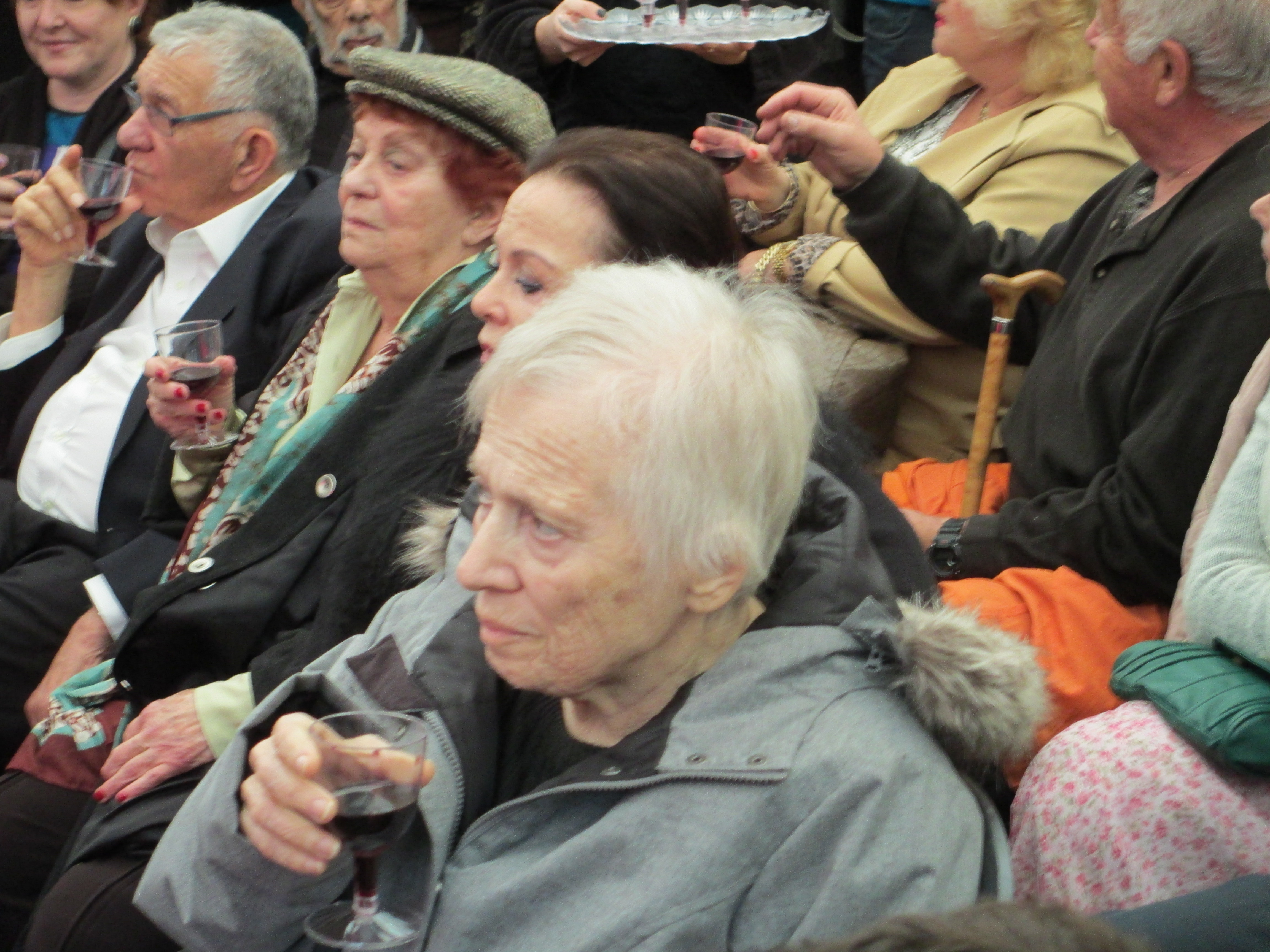 actress zaharira harifai (Rt.) השחקנית זהרירה חריפאי (ימין) בטקס זיכרון לגרי בילו. לידה - גילה אלמגור, חנה מרון וצבי בר